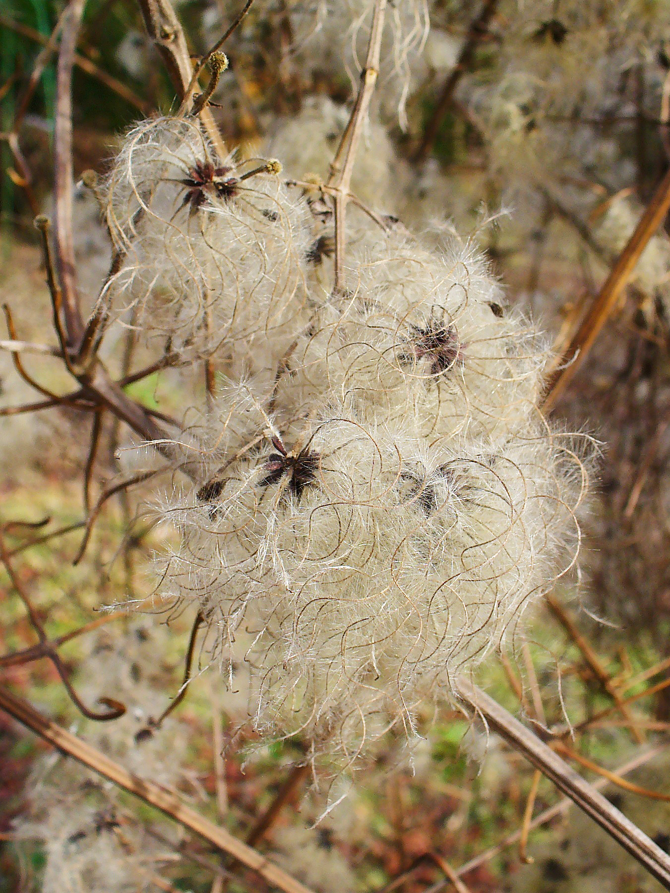 Clematis vitalba, Ranunculaceae, Old man's beard, Traveller's Joy, infrutescence; Botanic Garden Universiy Tübingen, Germany. The fresh leaves are used in homeopathy as remedy: Clematis vitalba (Clem-vit.)